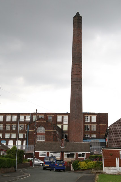 Gem Mill, Chadderton. Built 1901 of slightly darker brick than the accrington red brick that is so prevalent. Needs about 0.2 degrees anticlockwise rotation. I prefer this side as it shows chimney (not too severely truncated) and engine house to best effect. I reckon the new houses are on the site of the lodge (cooling pond). The nearby Raven Mill has a more severely shortened chimney and has lost its enginehouse. A visit on 16-2-2008 revealed that Gem Mill is no more and a housing estate is growing up where it was. I got a different angle on Raven Mill across the building site.